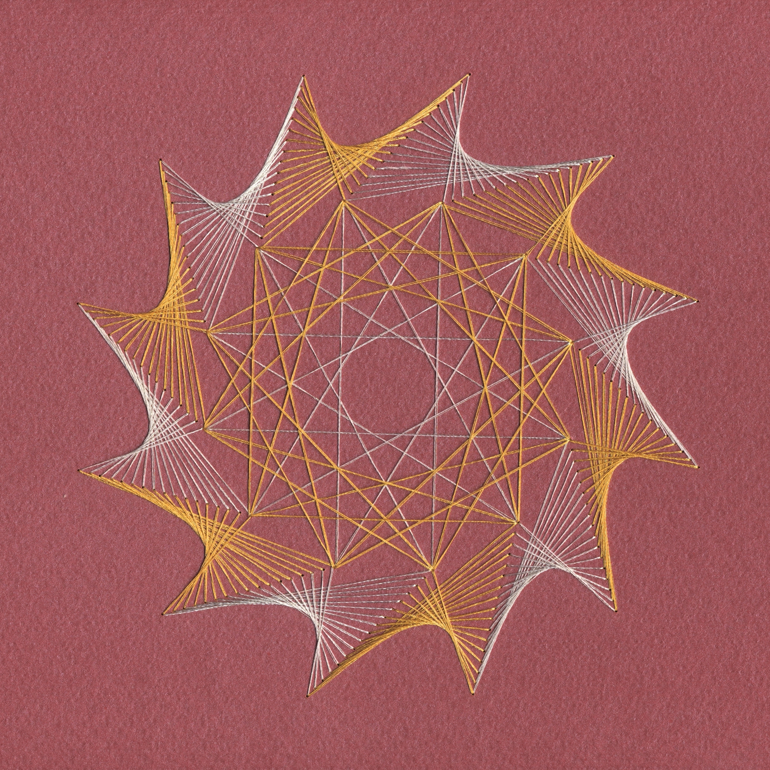 Stringart: geometrical pattern embroided on cardboardRomână: Grafică bordată: formă geometrică brodată pe carton